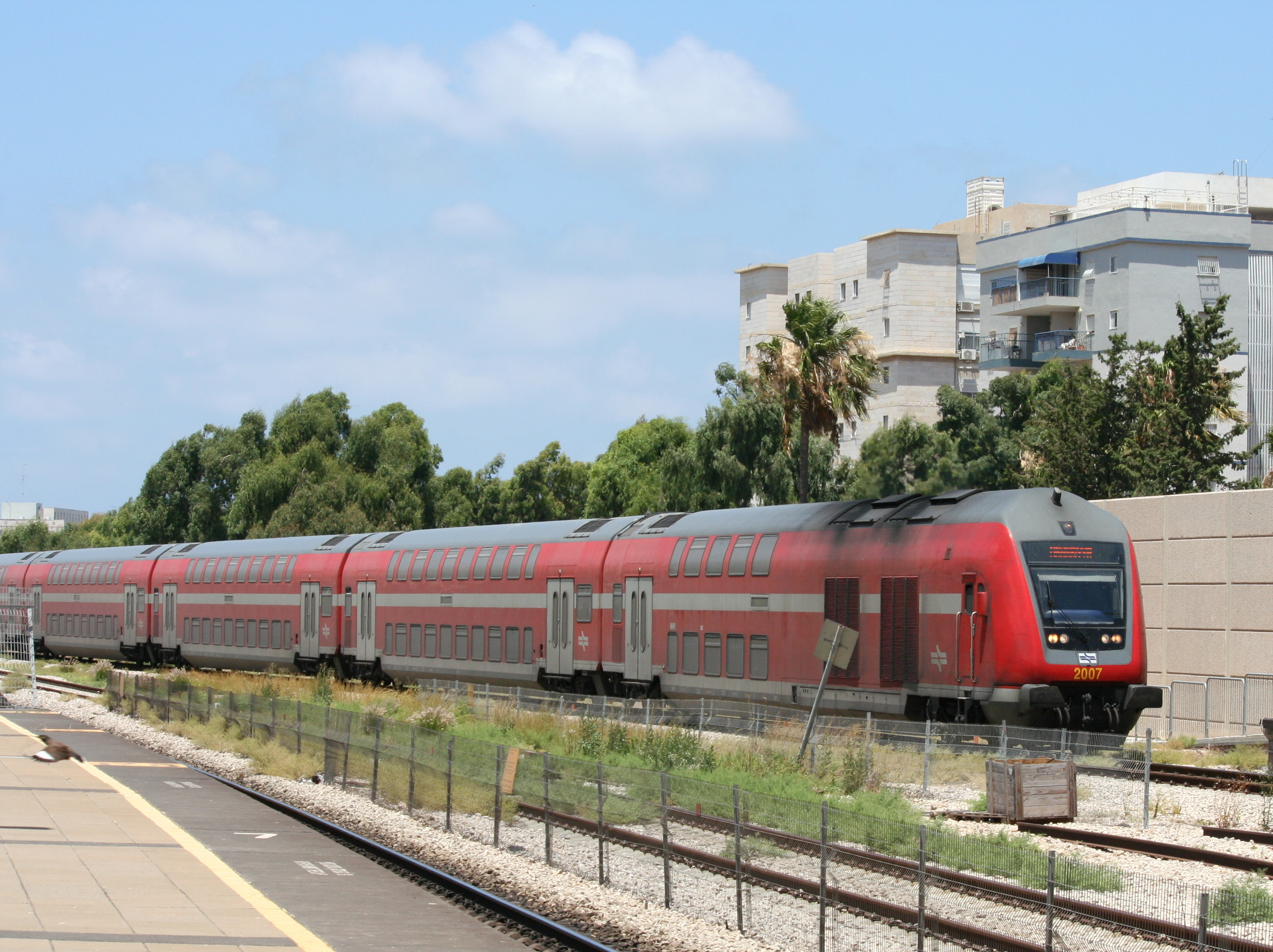 Double-Decker train to Nahariya headed by driving car no. 2007 entering Haifa Bat-Galim station